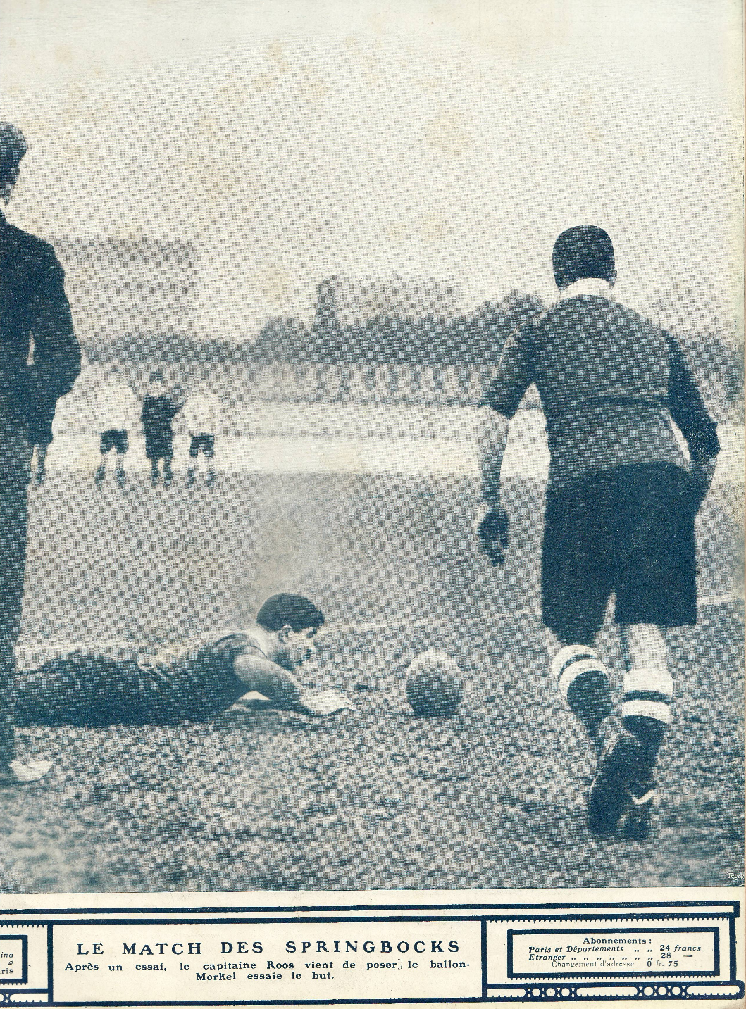 Springboks in Paris, Jan 1907, vs Parisian team (Stade Français + RCF).